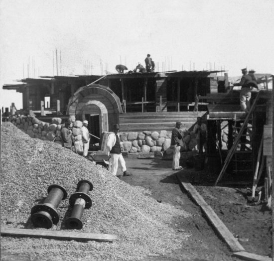 The water tower at Rævebakken under construciton in Gentofte/Vangede, Denmark